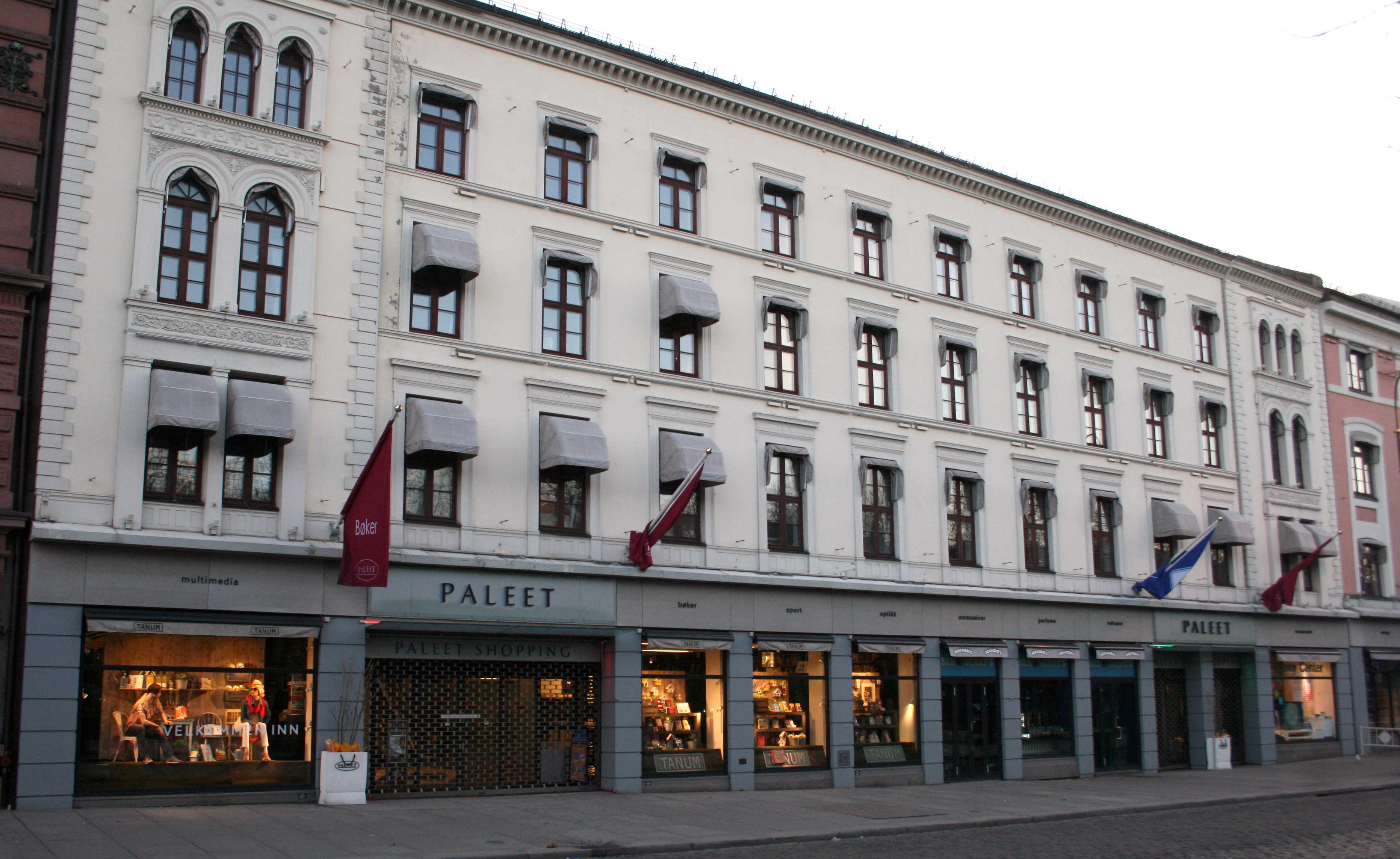 Karl Johans gate 41–43 in Oslo